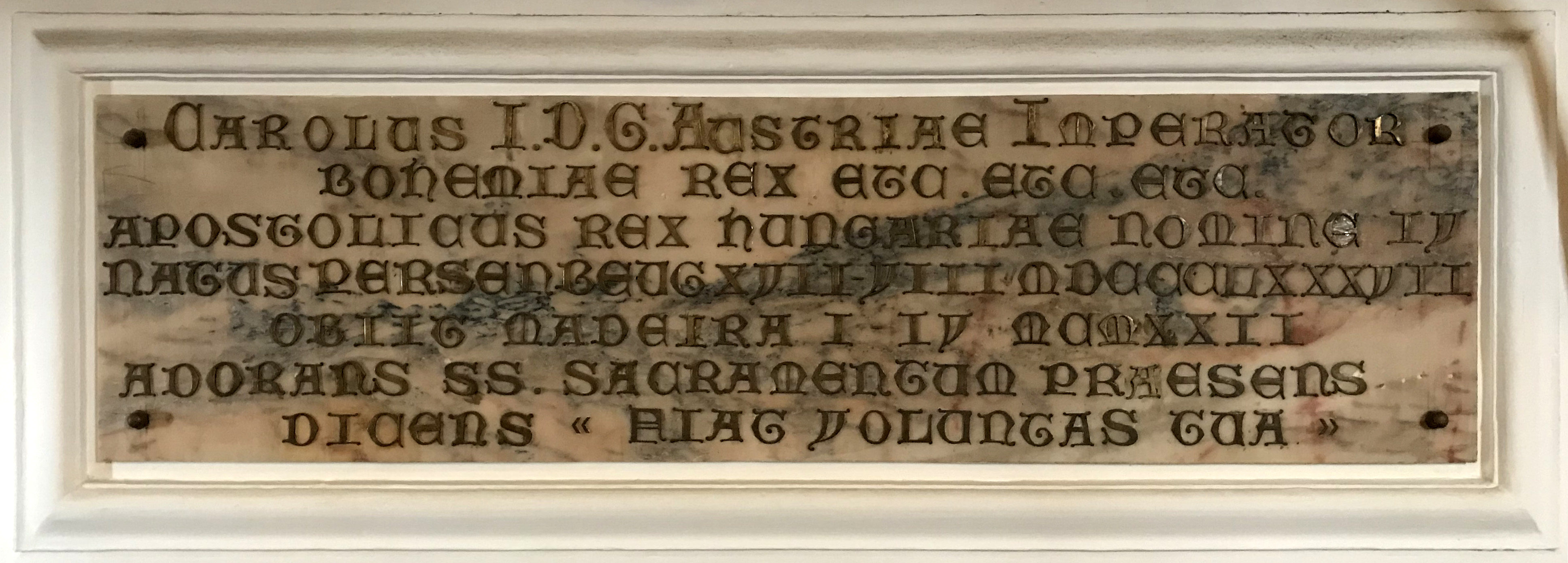 Gedenkplatte Kaiser Karl I. von Österreich-Ungarn in der Wallfahrtskirche Nossa Senhora do Monte auf Madeira links vom Eingang zu seinem Grab. Inschrift: CAROLUS I. D[ei]. G[ratias]. AUSTRIAE IMPERATOR | BOHEMIAE REX ETC. ETC. ETC. | APOSTOLICUS REX HUNGARIAE NOMINE IV | NATUS PERSENBEUG XVII-VIII MDCCCLXXXVII | OBIIT MADEIRA I-IV MCMXXII | ADORANS SS. SACRAMENTUM PRAESENS | DICENS "FIAT VOLUNTAS TUA" Karl I. Dank Gottes Kaiser von Österreich | König von Böhmen usw. usw. usw. | Apostolischer König von Ungarn genannt IV. | Geboren in Persenbeug 17.8.1887 | Starb in Madeira am 1.4.1922 | In Anbetung der Heiligen und in Anwesenheit des Sakraments sagte er | "Dein Wille geschehe"